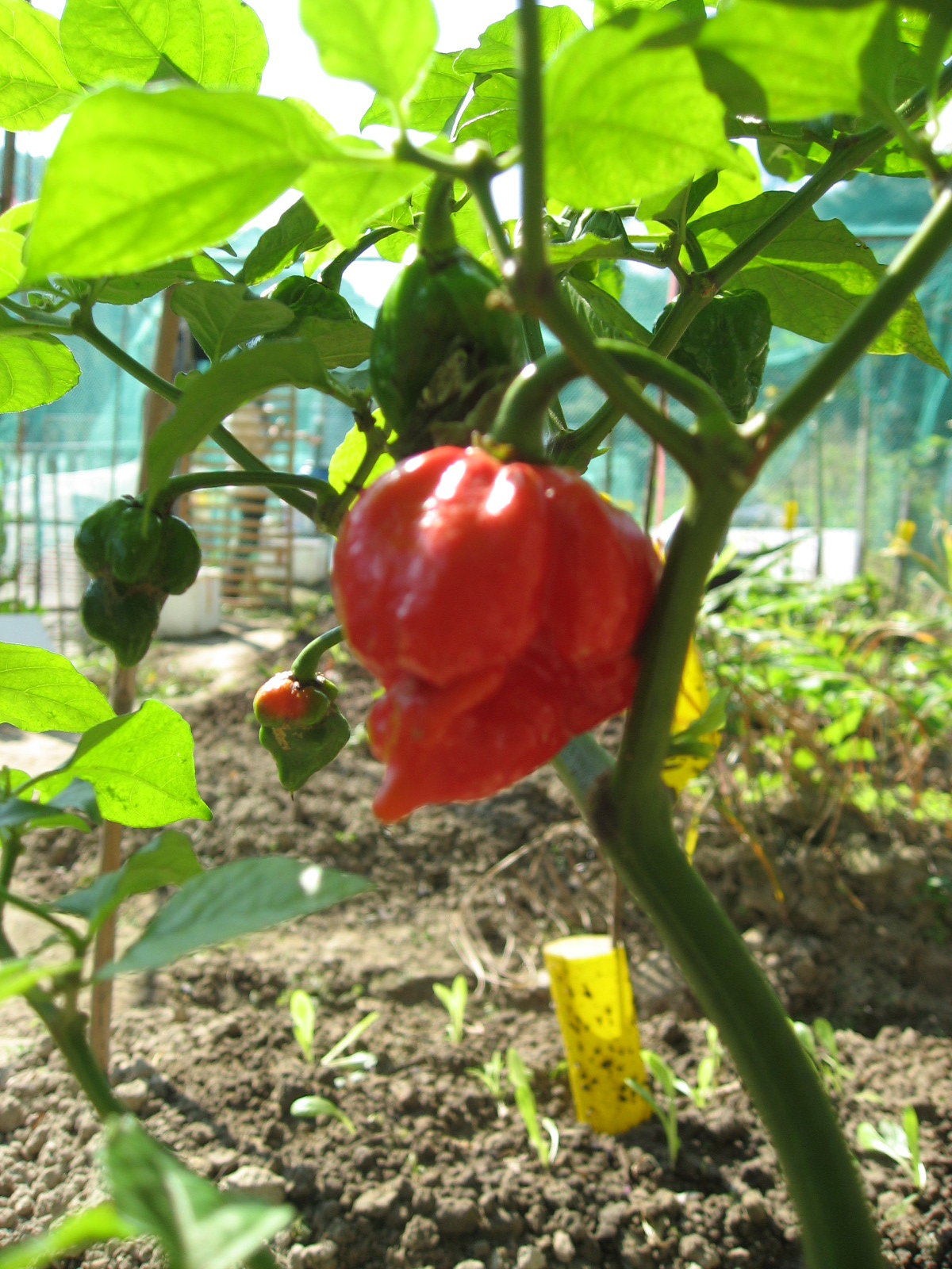 Pots of Trinidad Scorpion butch T peppers, one is ripe and the rest still green.